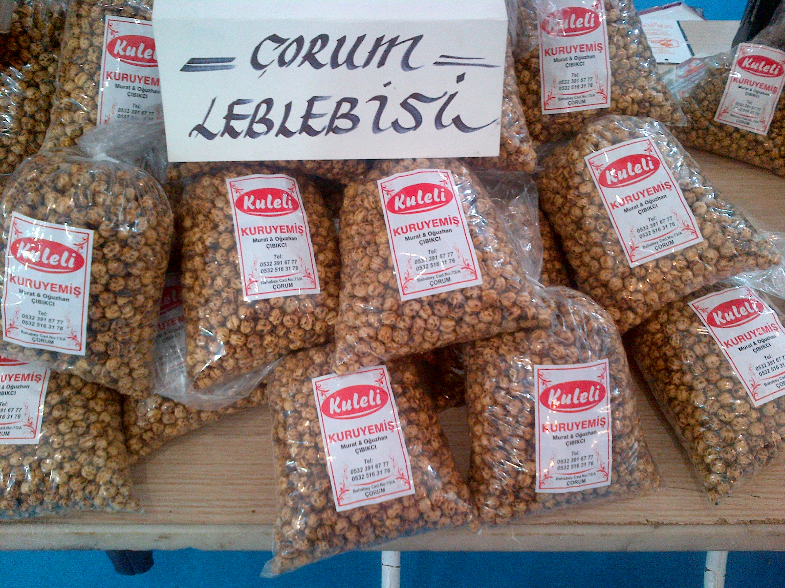 Famous Turkish leblebi from Çorum in the Black Sea Region.